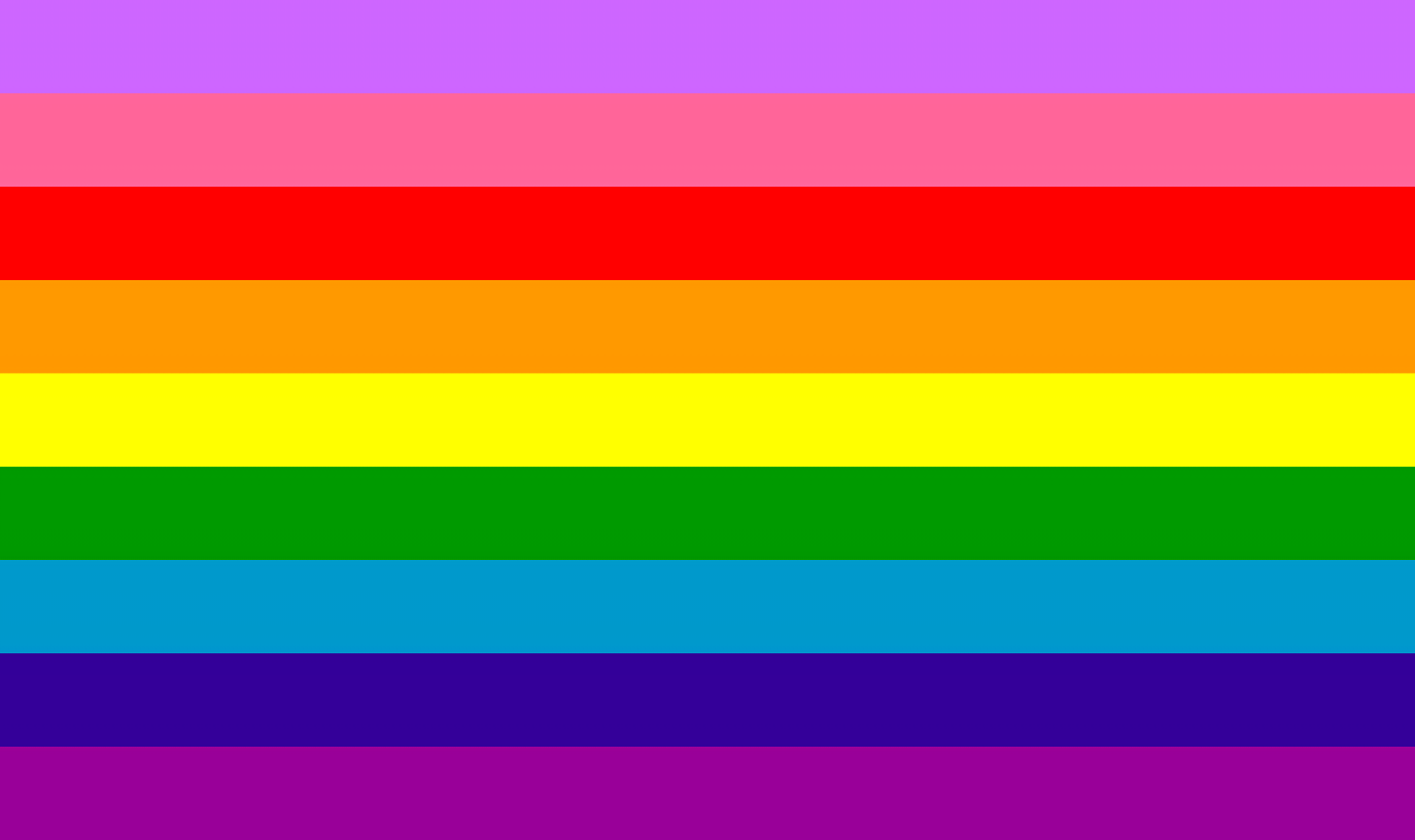 A nine stripe flag with stripes (from top to bottom) in lavender, pink, red, orange, yellow, green, turquoise, indigo and violet.